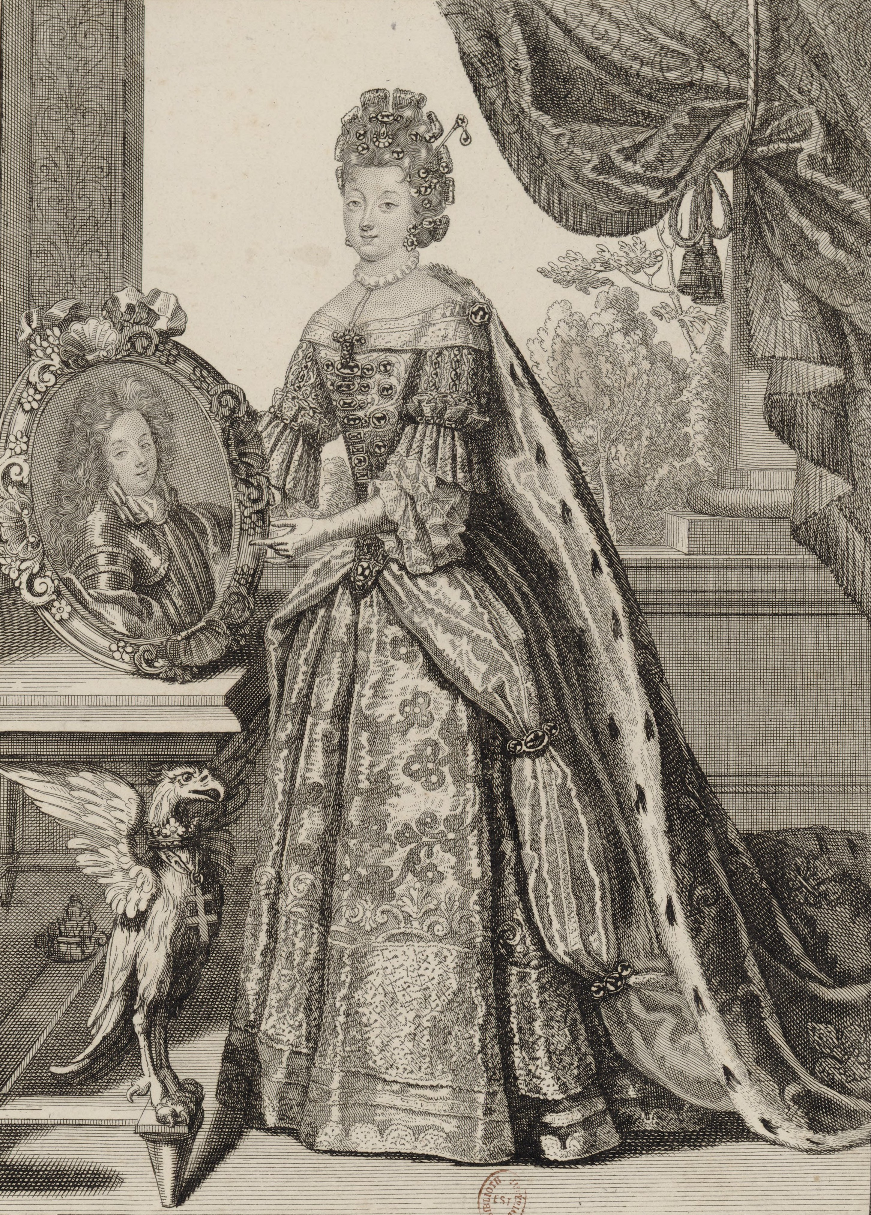 Élisabeth Charlotte d'Orléans, Duchess of Lorraine, holding a portrait of her husband the Duke of Lorraine